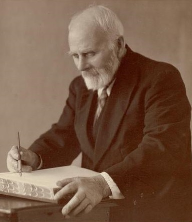 Samuel Shumack writing in a book in 1930